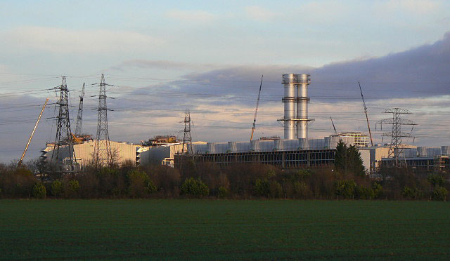 Staythorpe Power Station A late afternoon view from the west during construction of the power station.